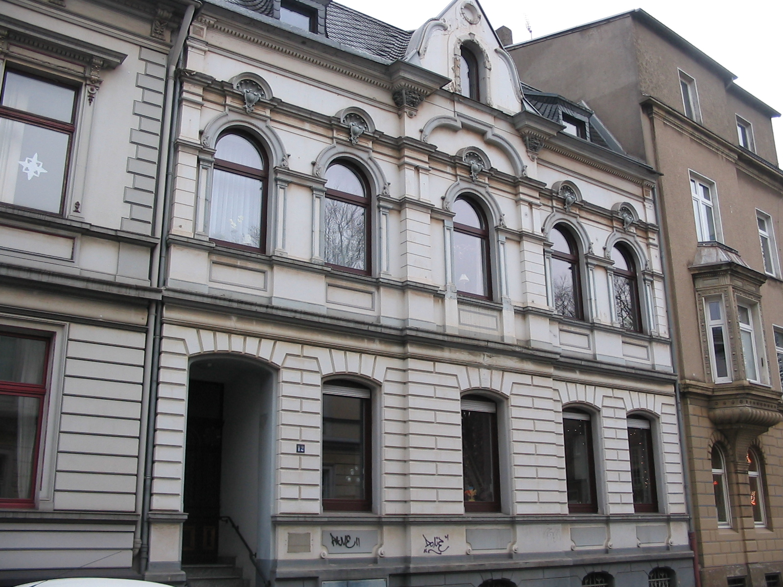 house Nordstraße 12 in Witten